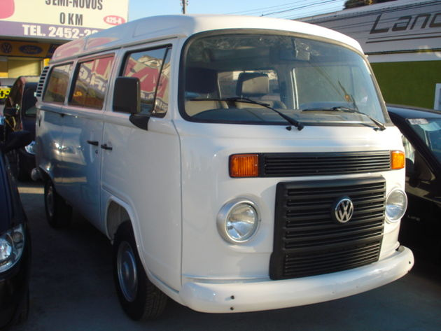 2010 VW T2 Bus - Brazilian Built (Water Cooled 1.4L Gas/Ethanol Engine).